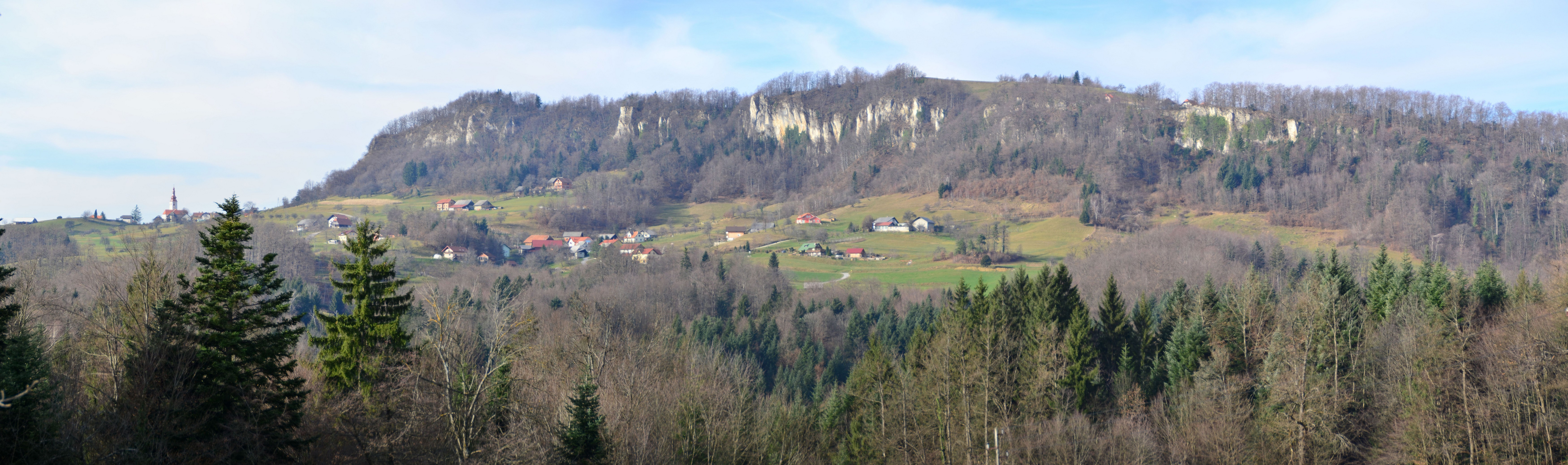 Podpeč pri Šentvidu - panorama